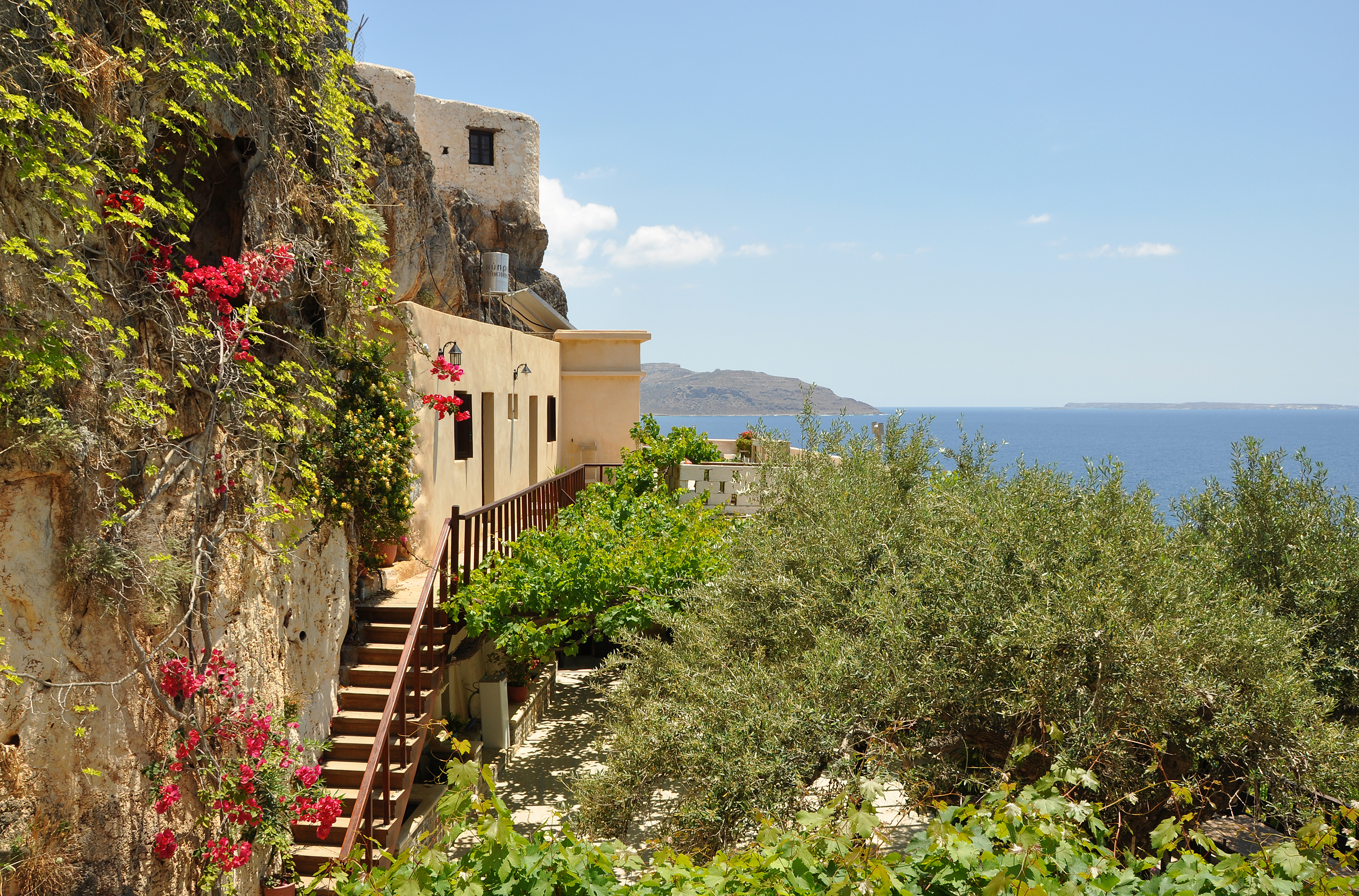 Kapsa monastery (Μονή Καψά), Crete (Greece)